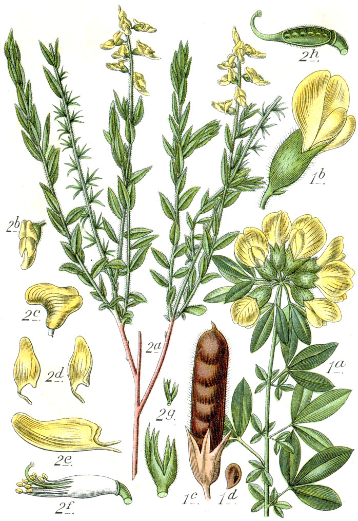 1. Cytisus supinus L., syn. Chamaecytisus supinus (L.) Link, Genista capitata (Scop.) E.H.L.Krause 2. Genista germanica L. Original Caption 1. Kopf-Ginster, Genista capitata 2. Deutscher Ginster, G. germanica